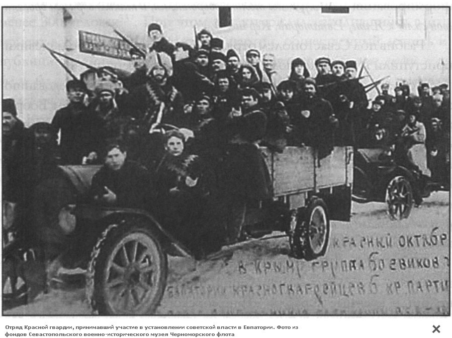 Members of Red Guards in Yevpatoria, which took part in sovietization of the town in January 1918. Fotoimage from excibition of Sebastopol's Museum of Russian Black Sea Navy.